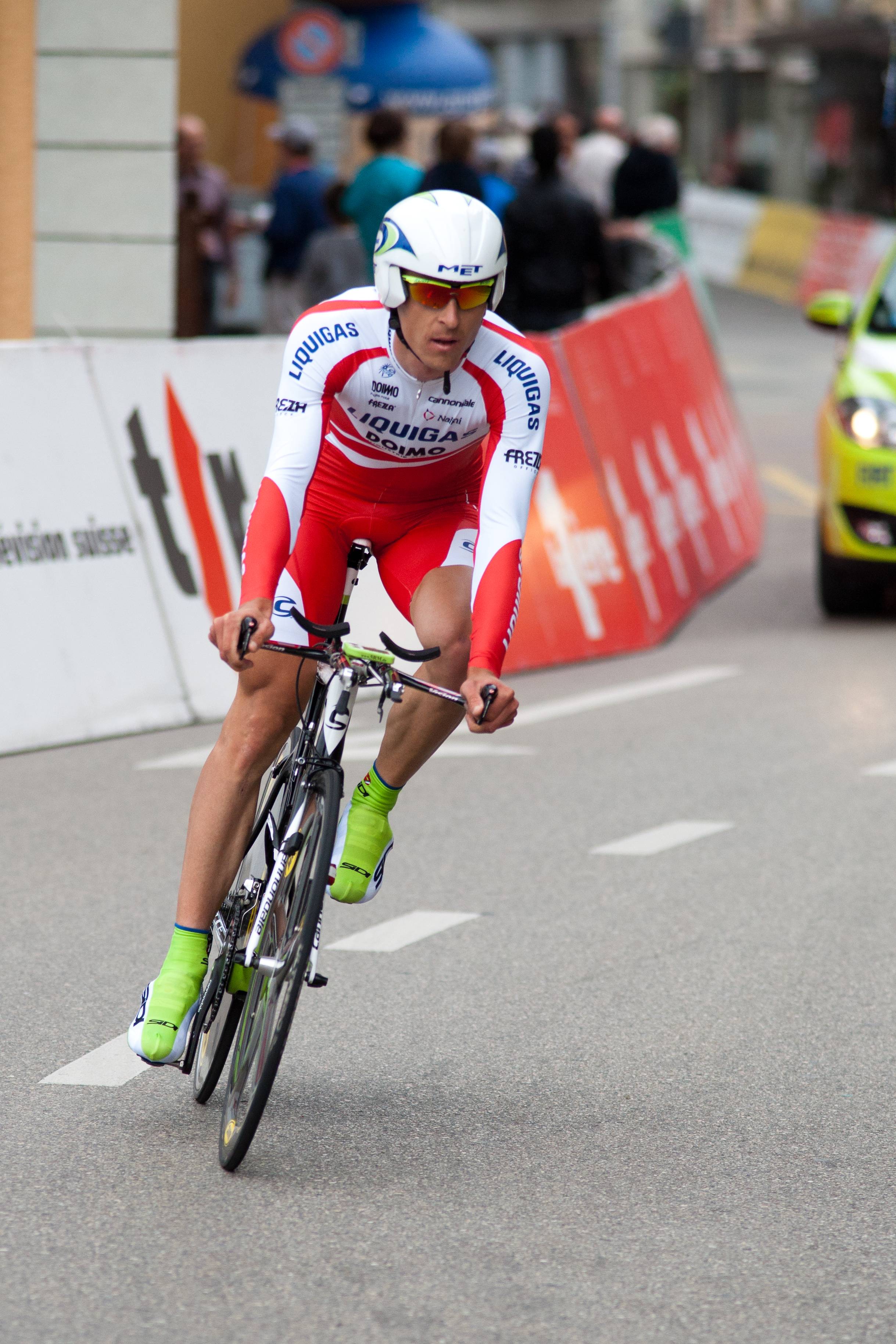 Maciej Bodnar during the 3rd stage of the Tour de Romandie 2010.